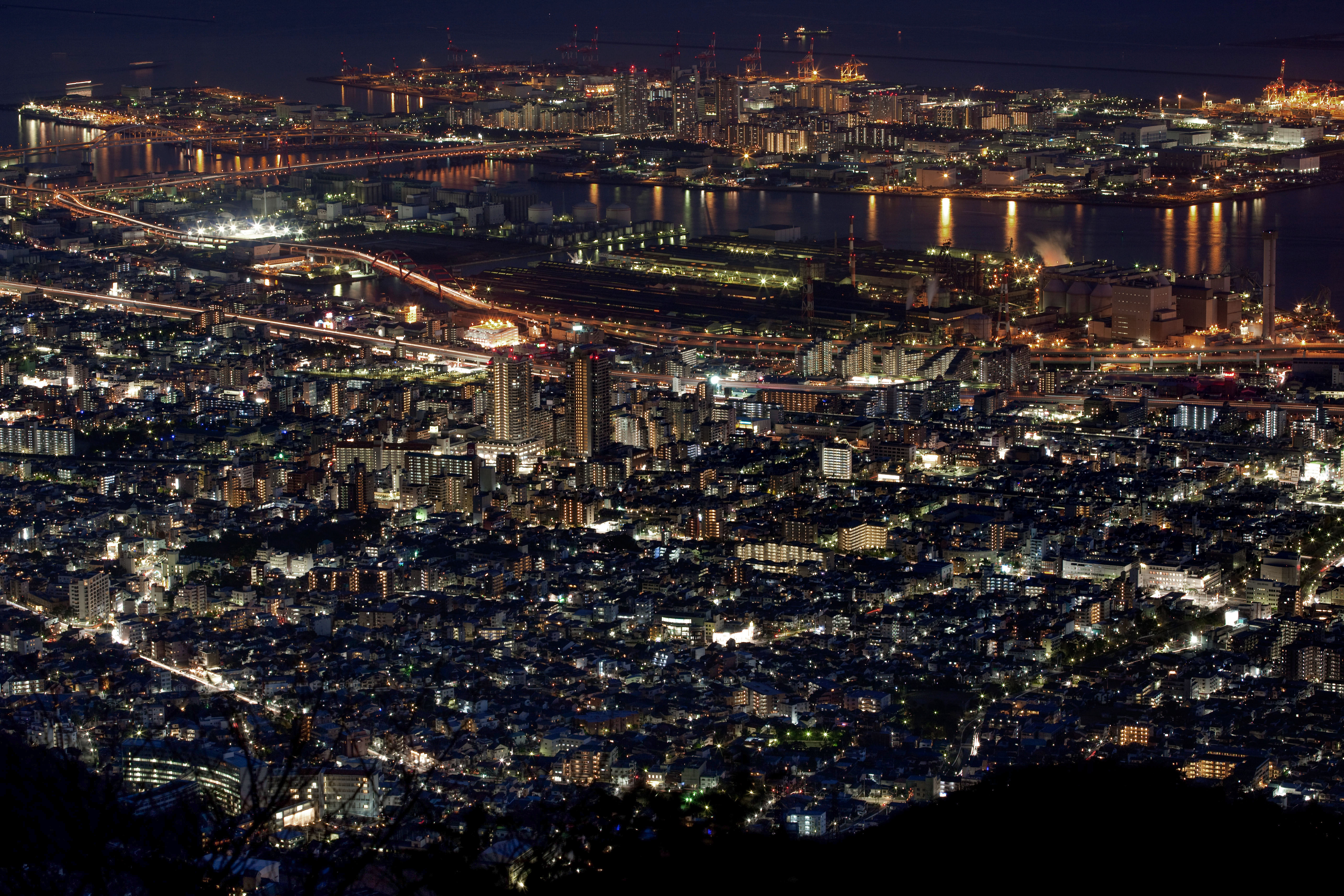 Night view of Rokkō Island and Higashinada-ku, Kobe, Japan from Mount Maya.